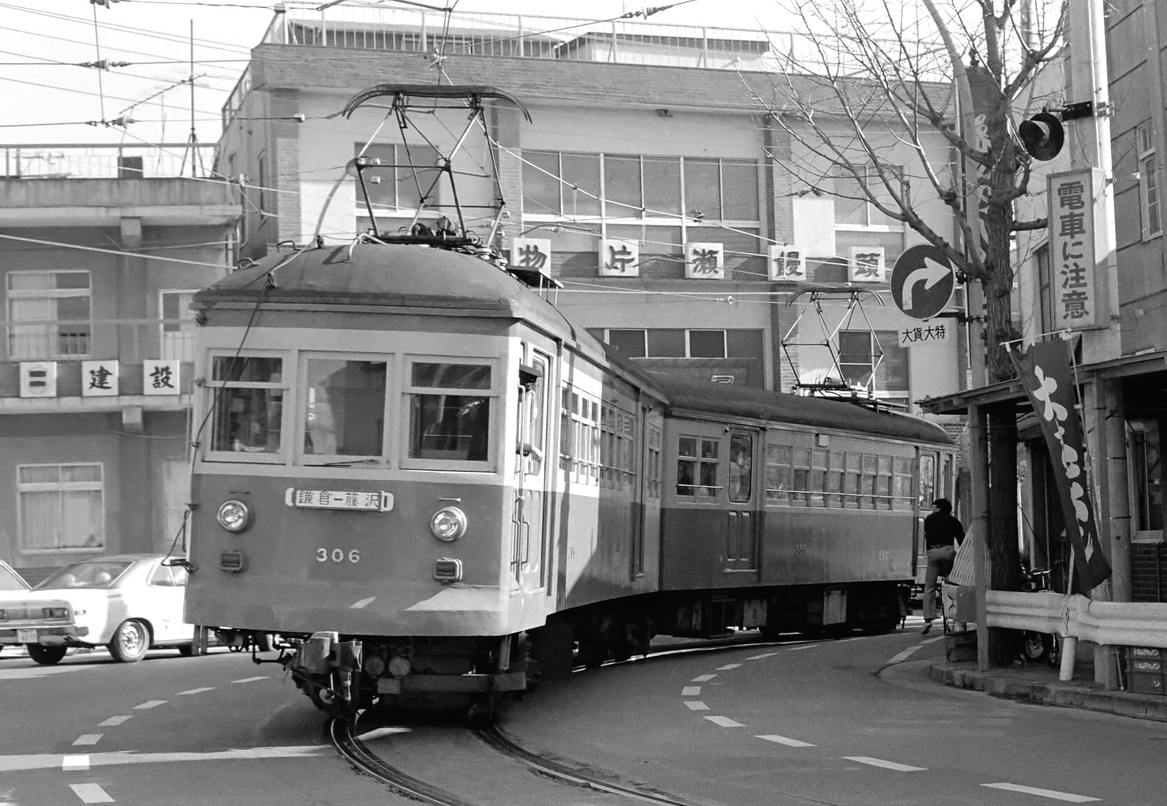 Enoshima Kamakura Kanko 300 series EMU running between Enoshima and Koshigoe.